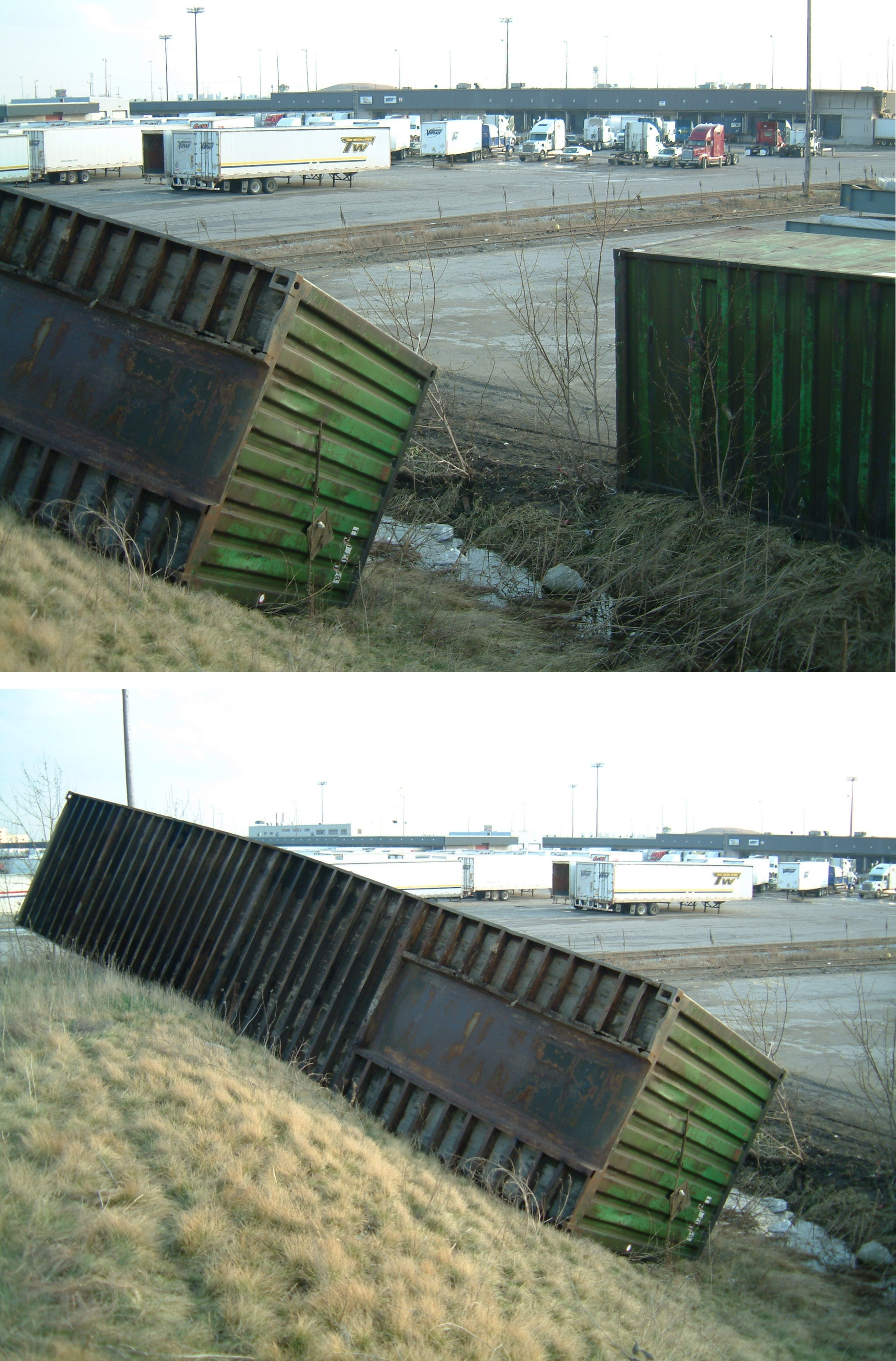 Strong downburst winds associated with a severe thunderstorm flip a several ton cargo shipping container up the side of a hill. The two images above provide slightly different perspectives of the same container, you will note a second green container at the base of the hill and indentations in the ground showing where the now flipped container had been sitting prior. Visit for more images and a full account of events leading up to the downburst.